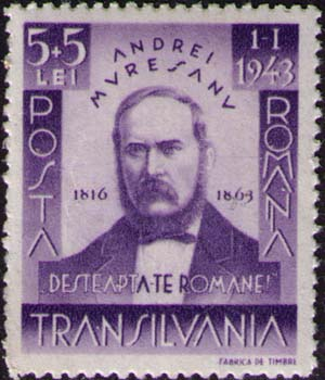 1942Romanian Post, 5+5 lei, grey-violet, representing Andrei Mureşanu; Series:Andrei Mureşanu